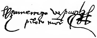 Signature of Italian explorer Amerigo Vespucci, after whom the continent "America" is named